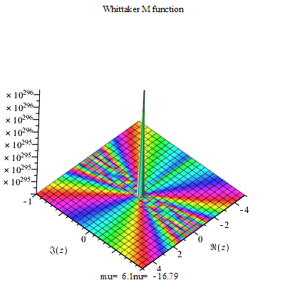 WhittakerM function